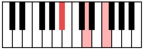 b-flat major chord